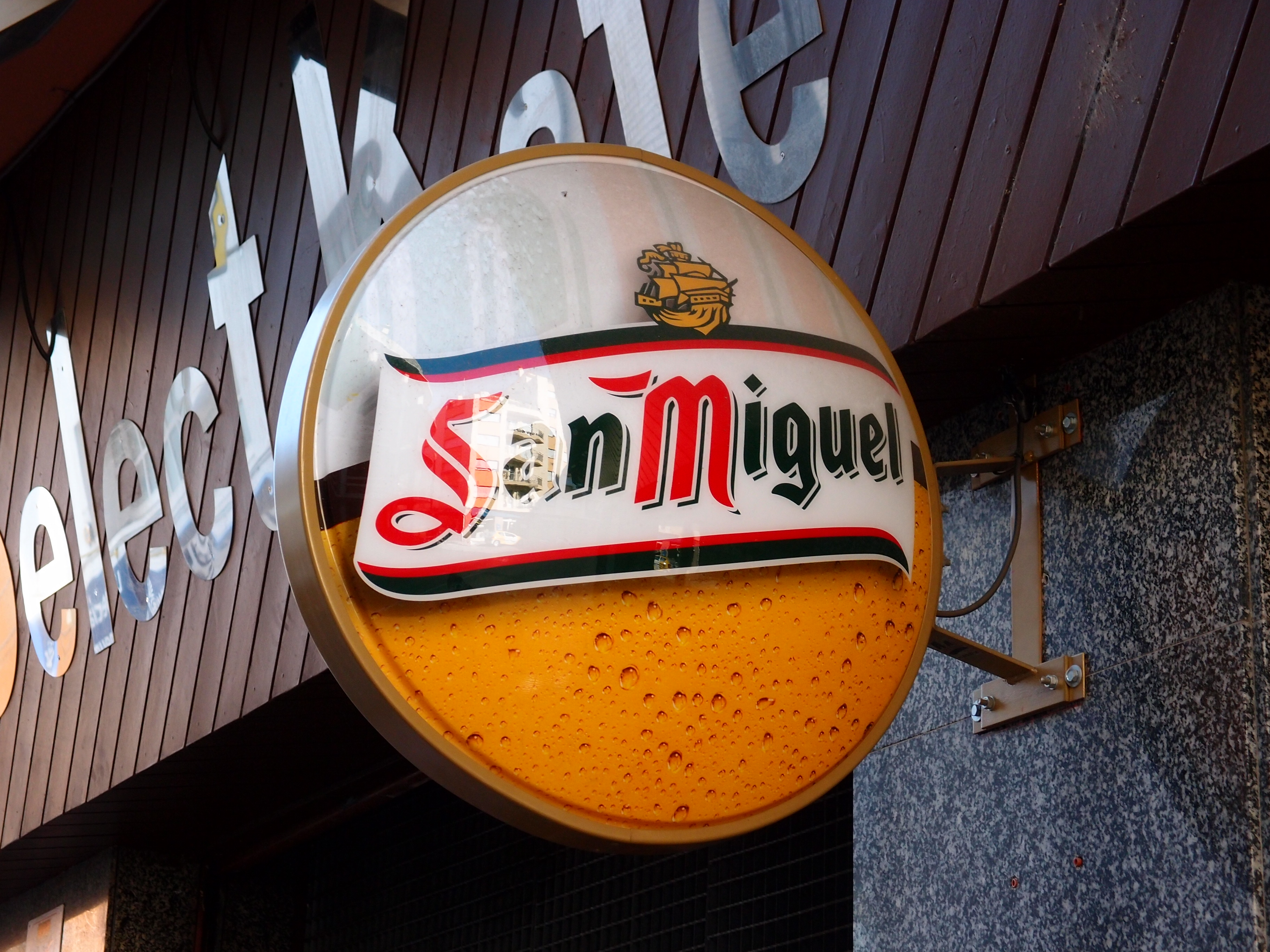 San Miguel Außen-Lichtwerbung in Katalonien/Spanien Datum: 23.09.2011 Urheber: M. Pfeiffer alias Benutzer:Gordito1869 Quelle: Privates Fotoarchiv des Urhebers